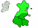 County Dublin map with inset location on island of Ireland. Also administrative divisions, with Fingal highlighted.